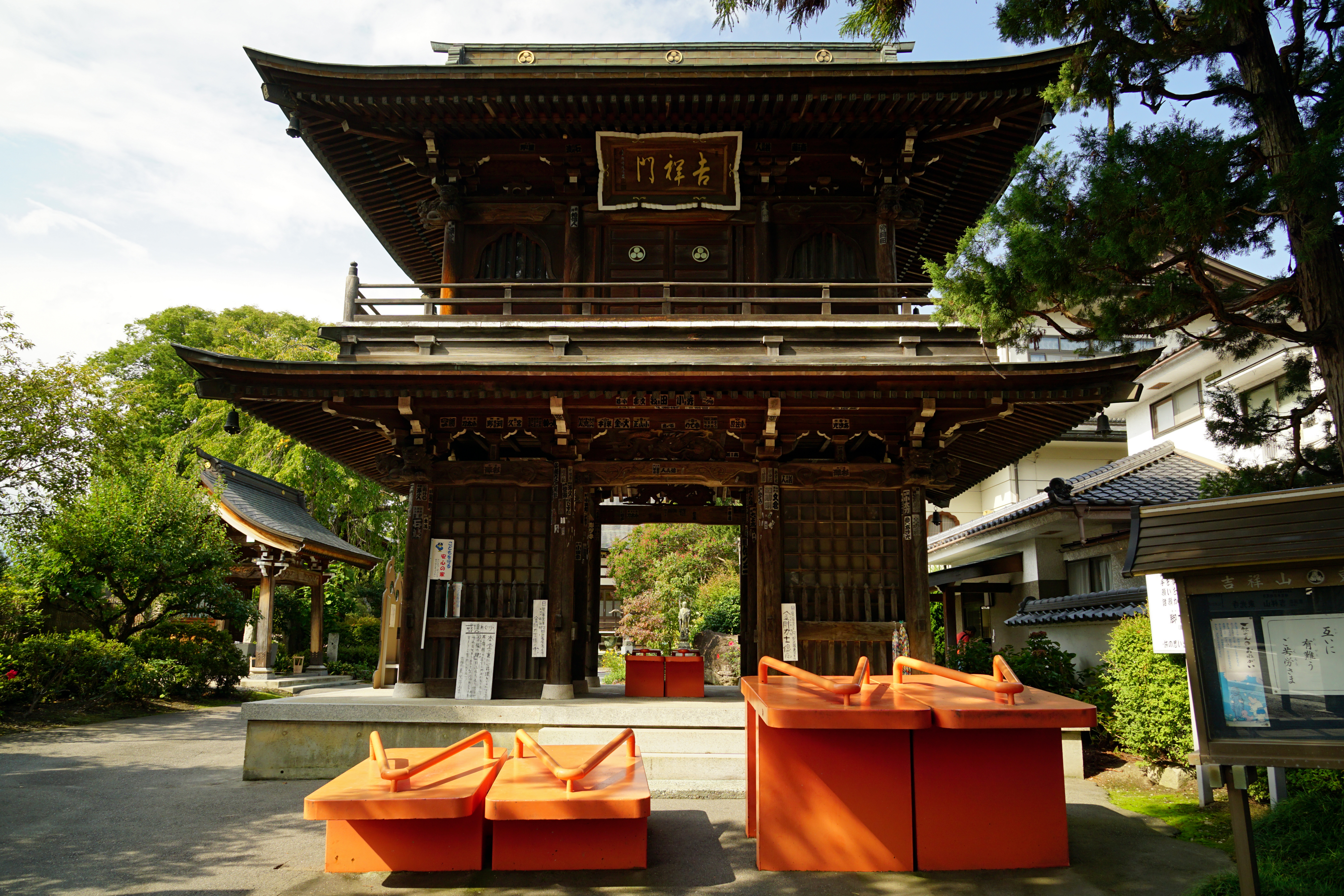 Tōkō-ji in Azumino, Nagano prefecture, Japan